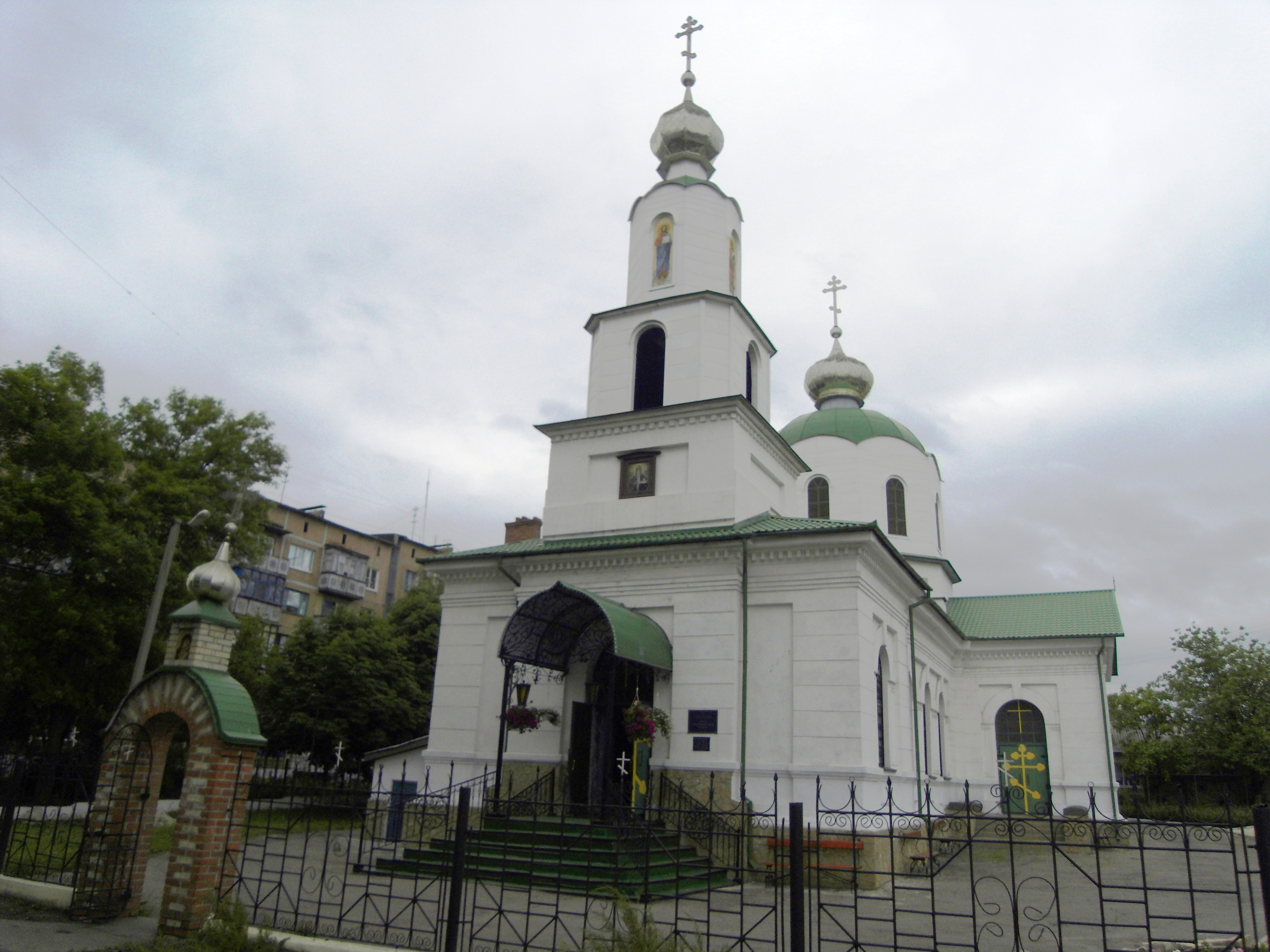 Church of St. Macarius, Dzerzhynsk